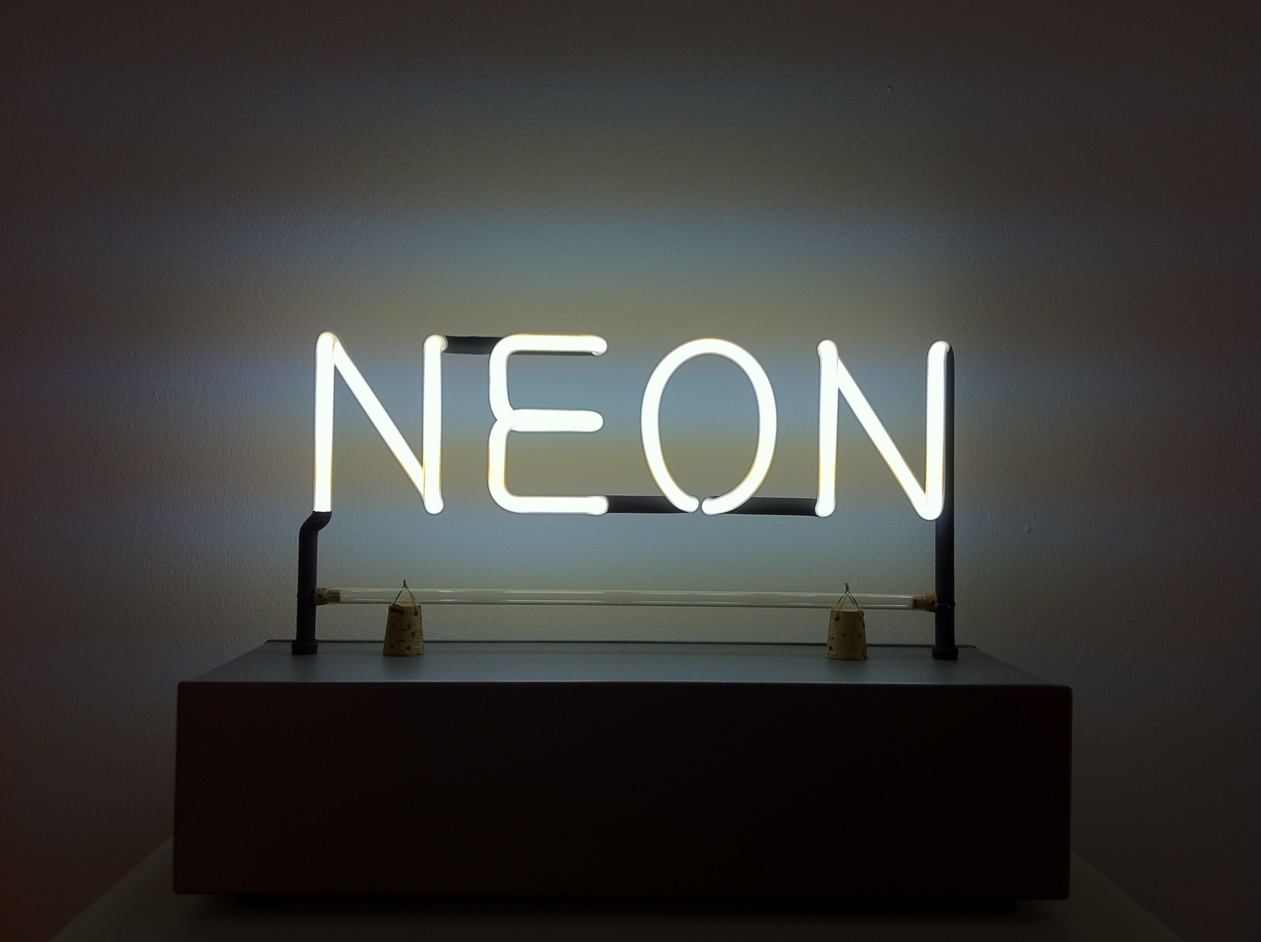 Neon, Who's afraid of red, yellow and blue exhibition from 17 February to 20 May 2012 at la maison rouge, Paris, France.